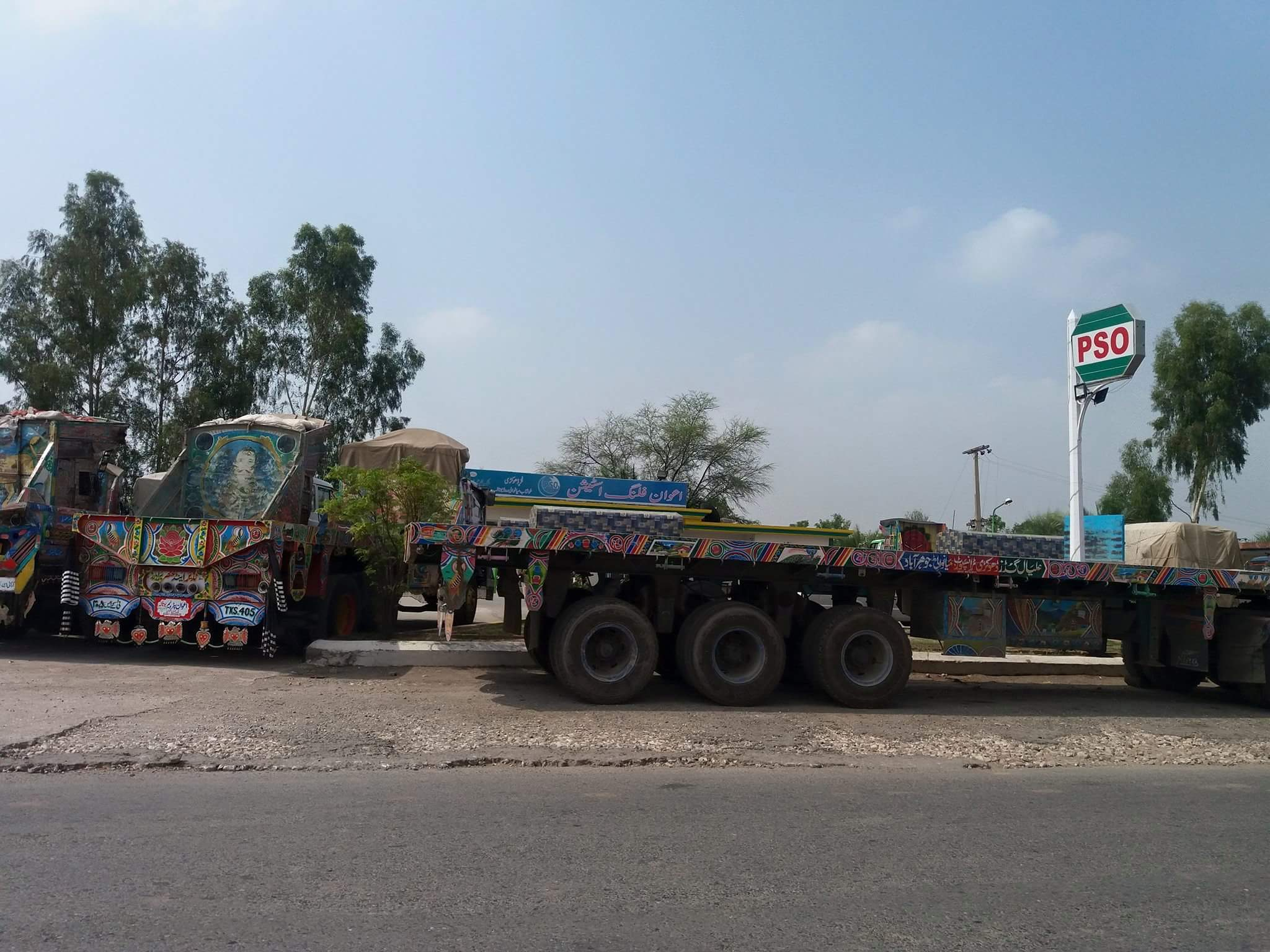 I also Uploaded this Photo on Botala Facebook Page & on website